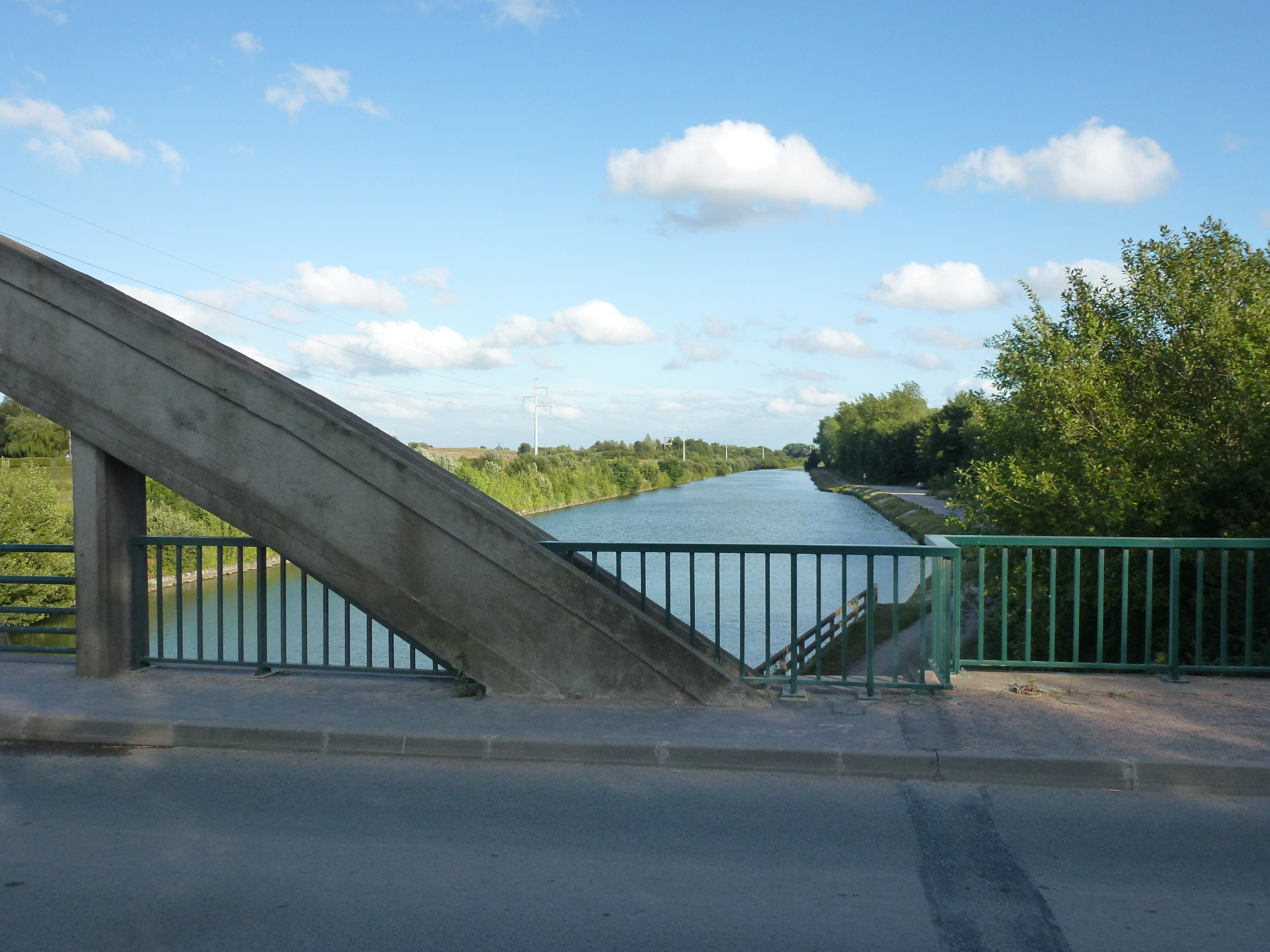 Blaringhem (Nord, Fr) Canal de Neuffossé au Pont-d'Asquin